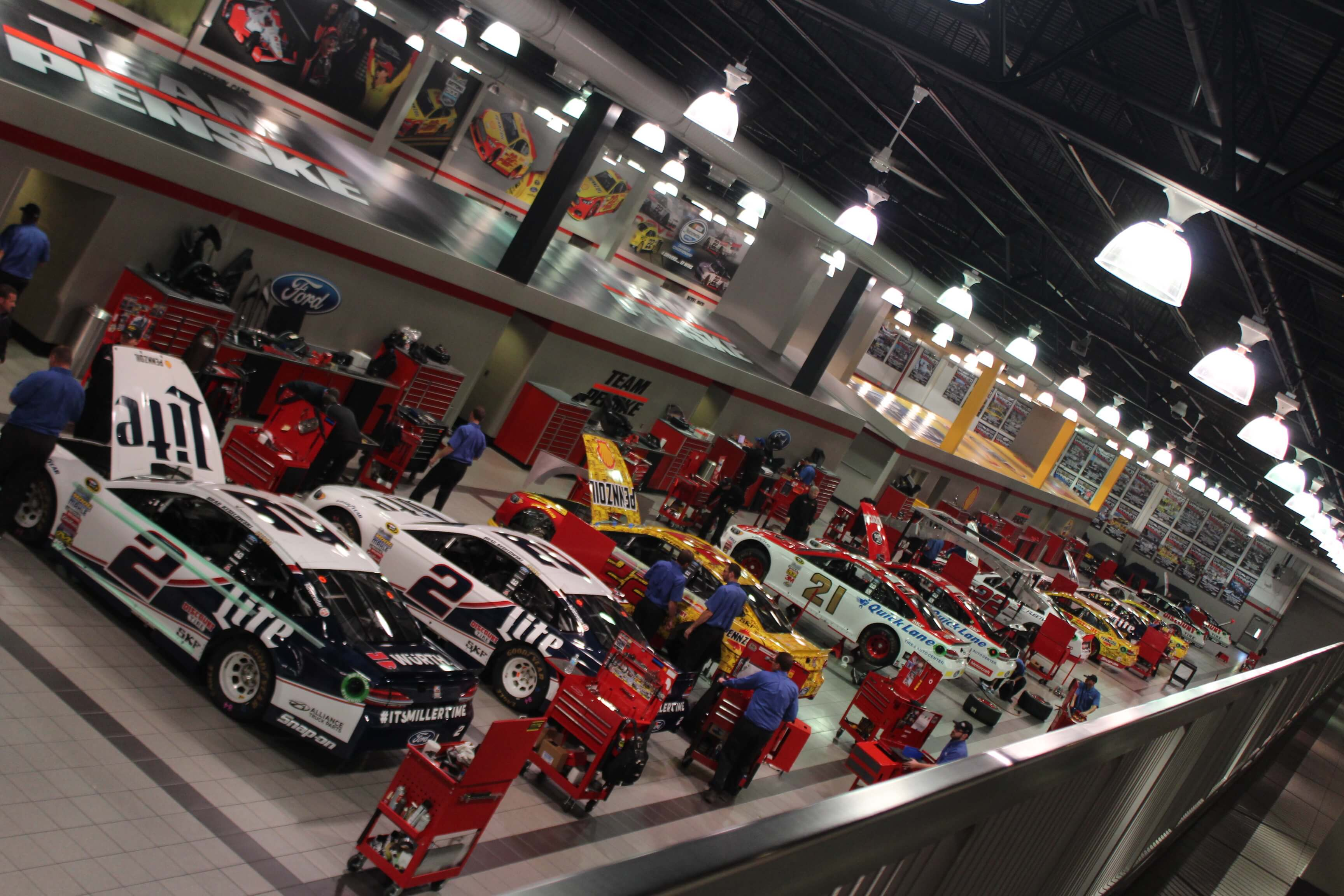 Several of Keselowski's 2016 Cars in the Team Penske Shop in Mooresville.